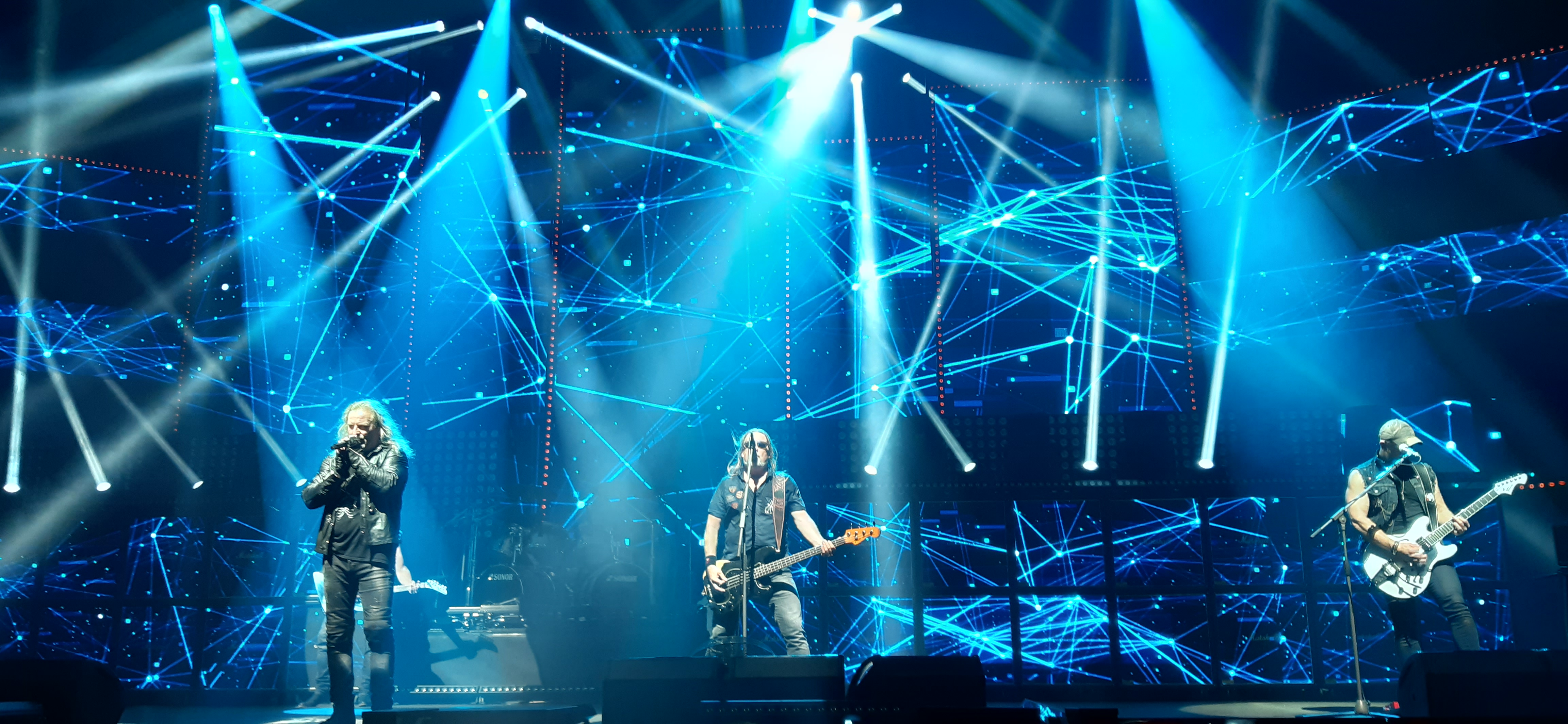 Czech rock band Kabát during a charity concert ina sold out arena O2 Universum.